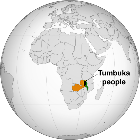 Approximate historical geographical distribution of Tumbuku people in Africa This is a derivative work on the following image available on wikimedia under creative commons license: Malawi Zambia Locator (orthographic projection).svg